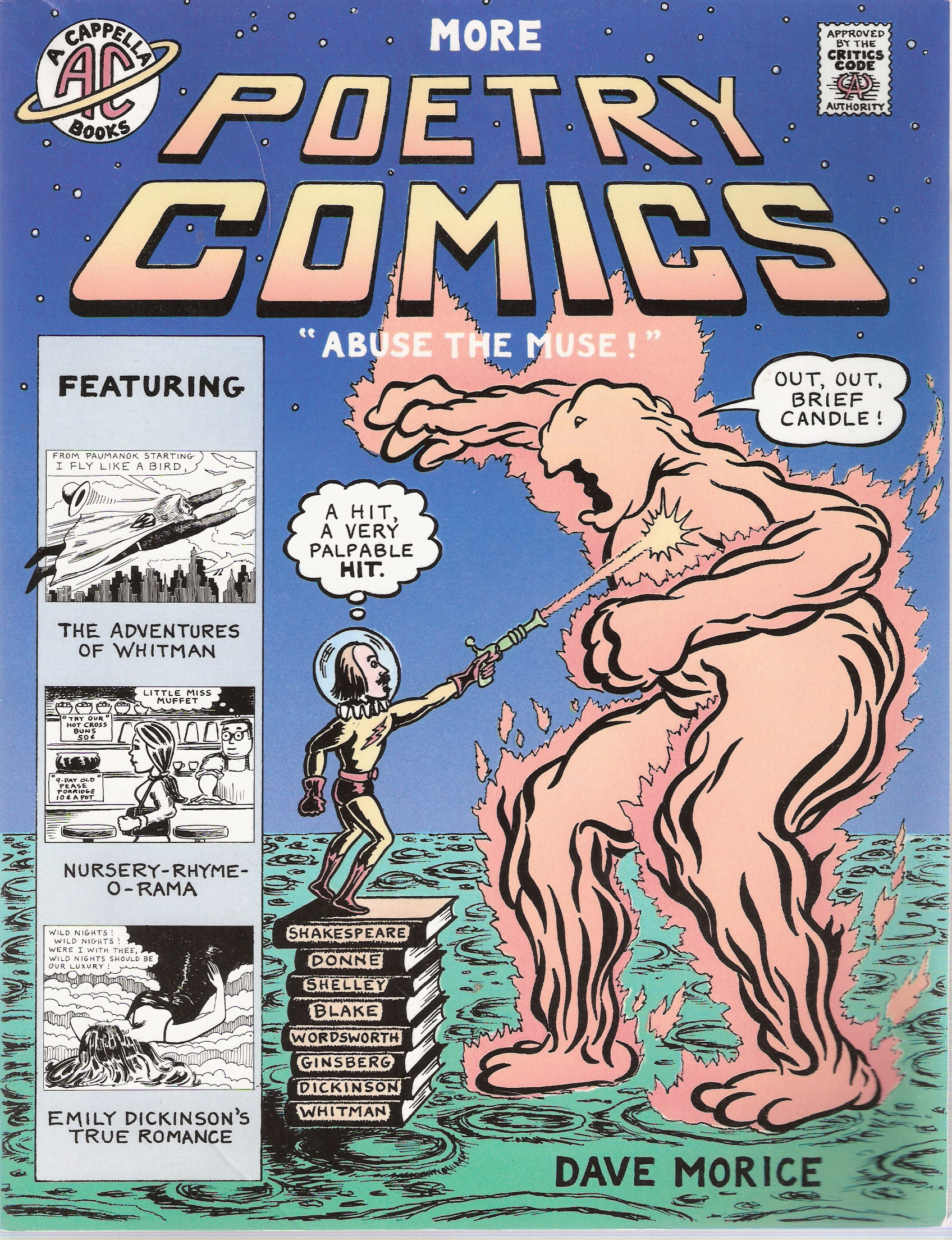 Poetry Comics Front Cover